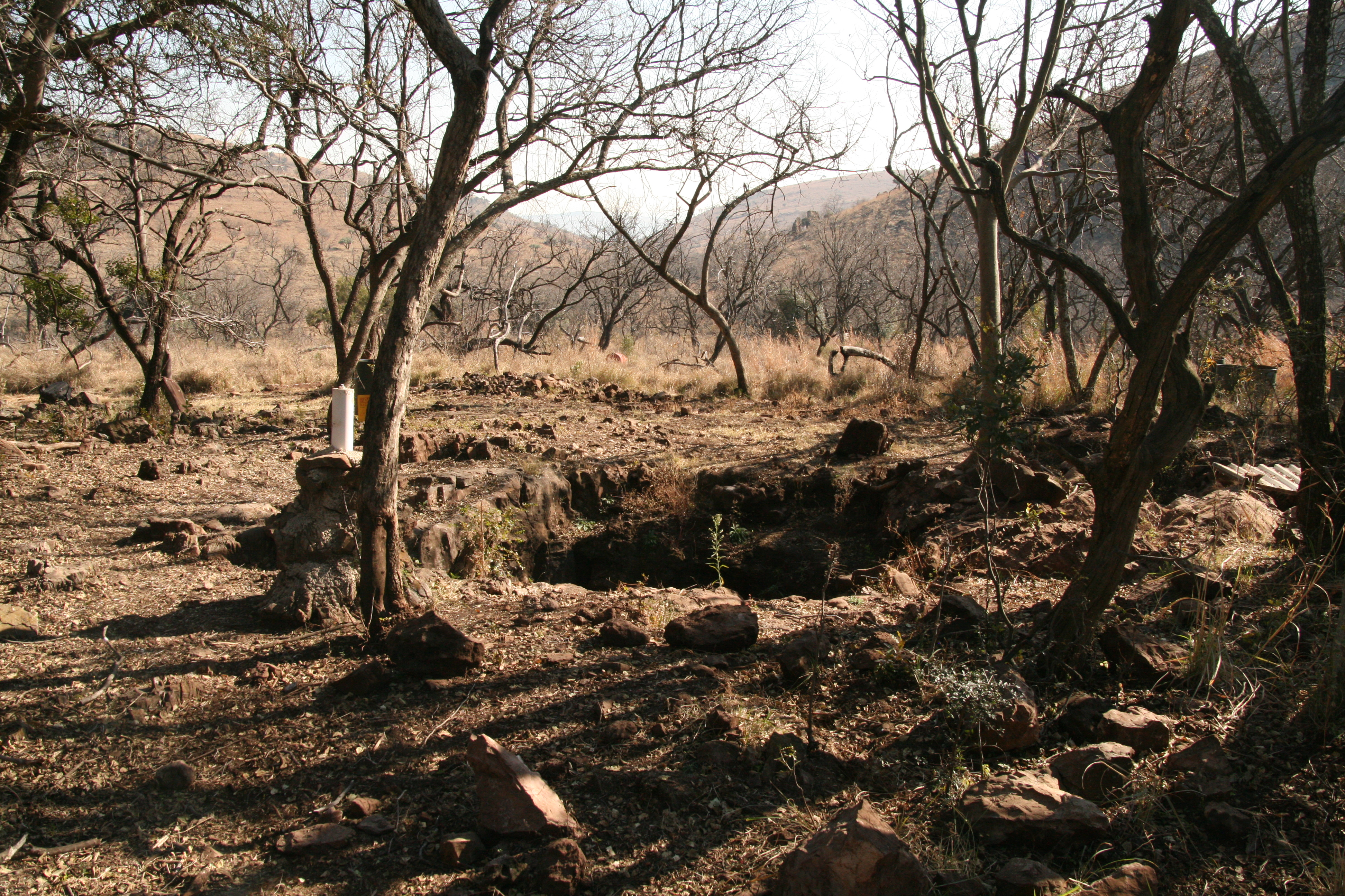 The Malapa site, August 2011 site of discovery of australopithecus sediba. Photo by Lee R. Berger